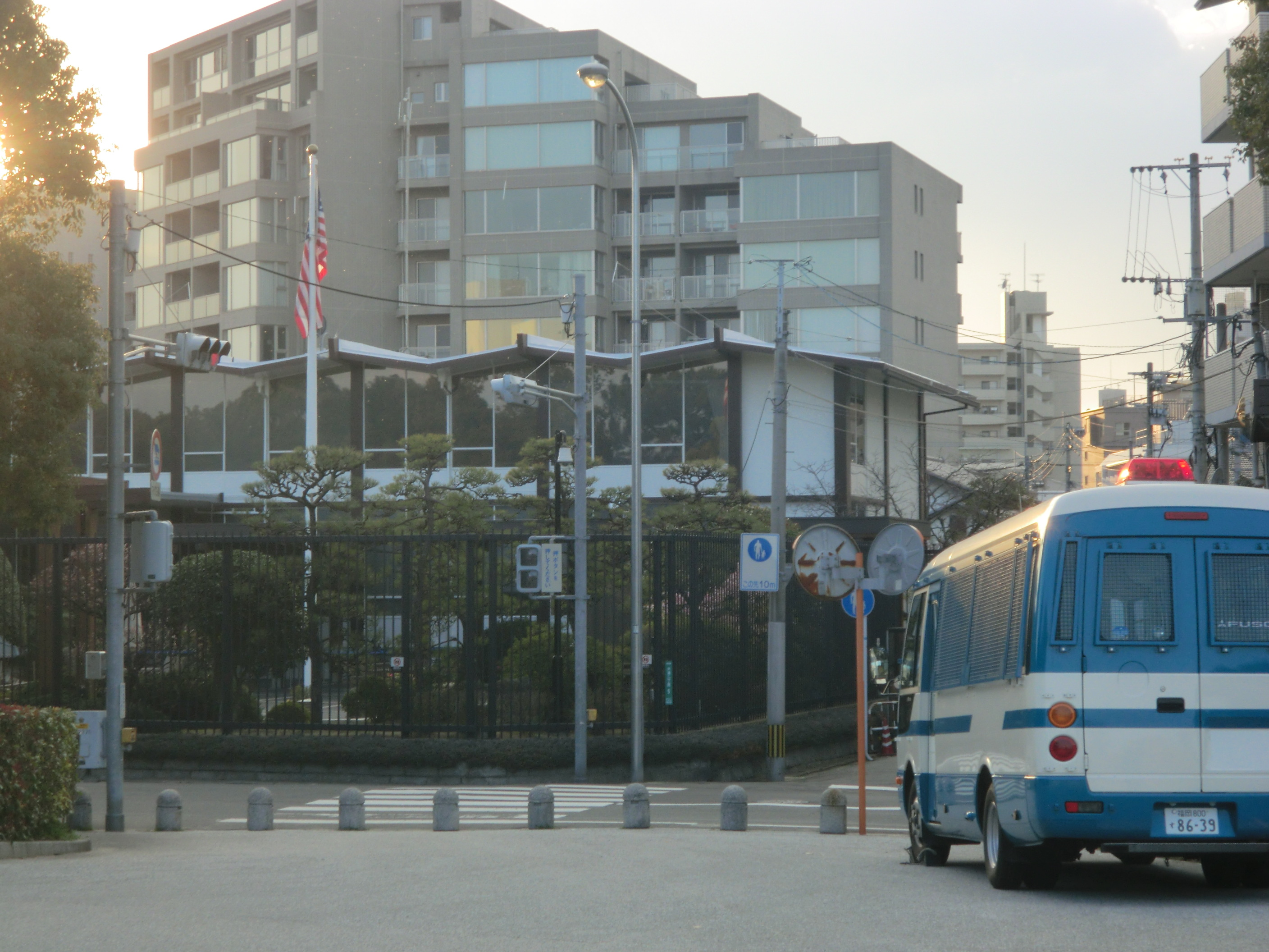 Consulate of the United States in Fukuoka